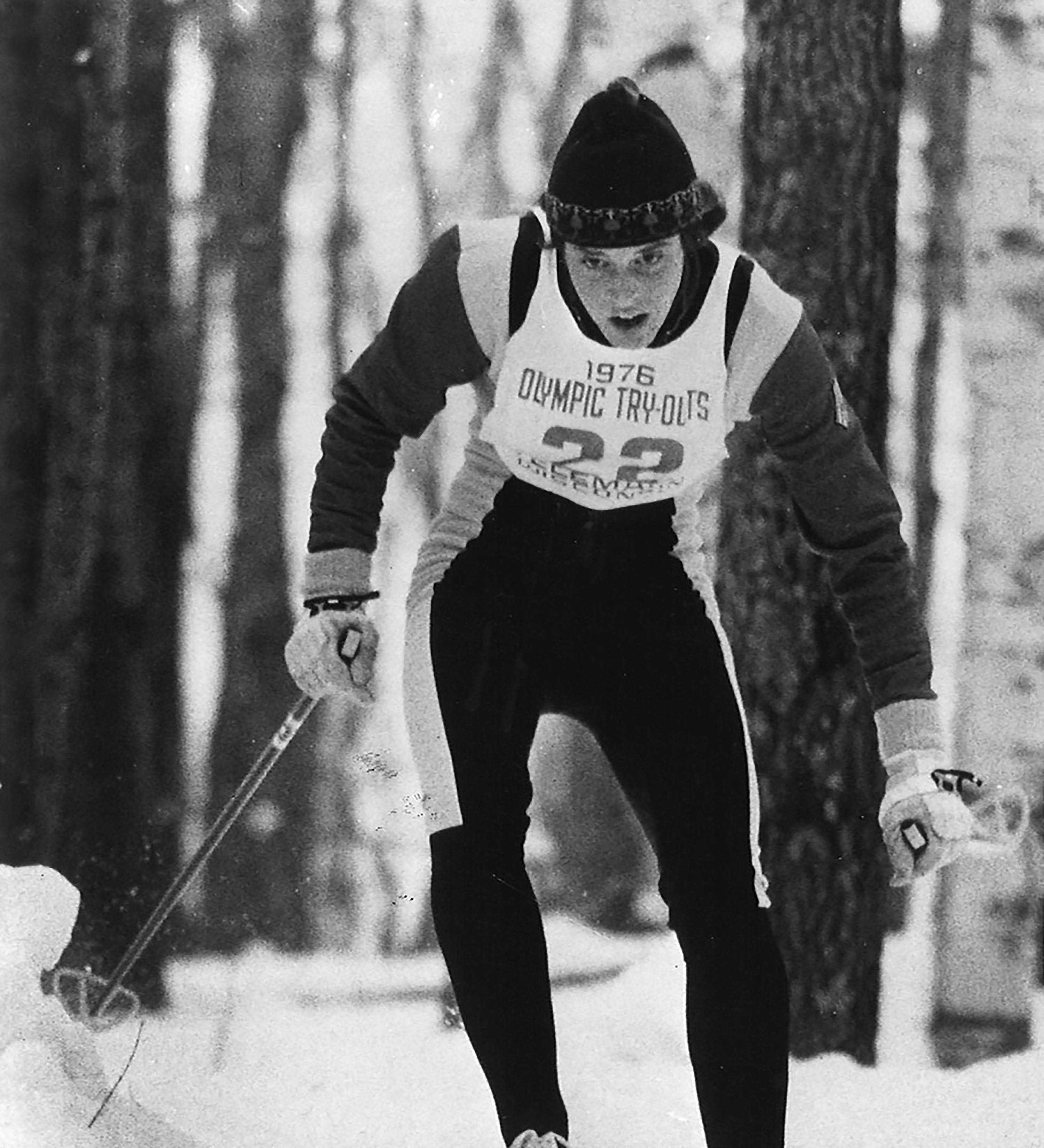 Martha Rockwell during a 1976 Olympic tryout cross-country ski race at the Telemark Lodge—Cable, Wisconsin—in early January, 1976.